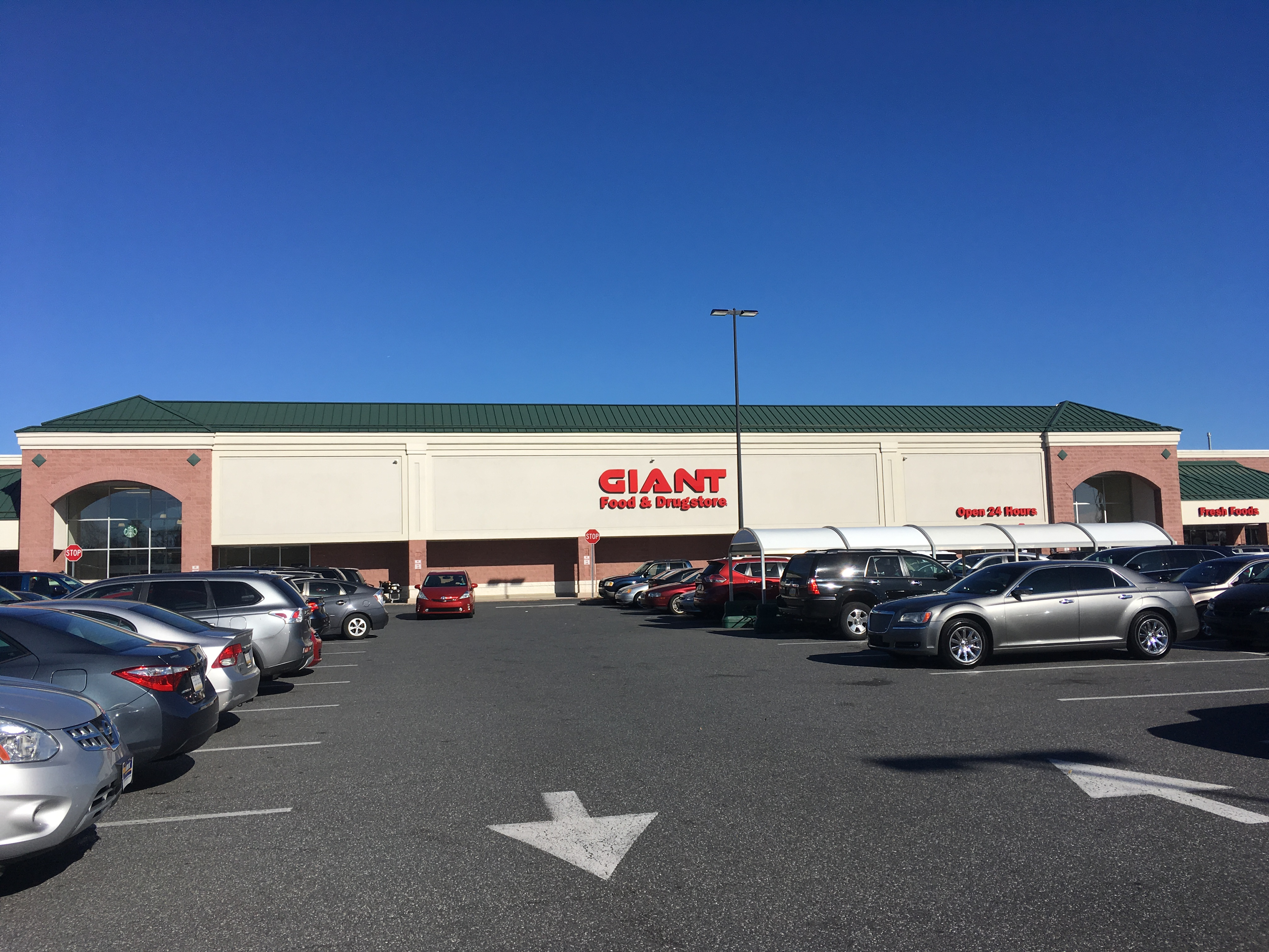 The Giant grocery store in the Lancaster Shopping Center in Lancaster, Pennsylvania